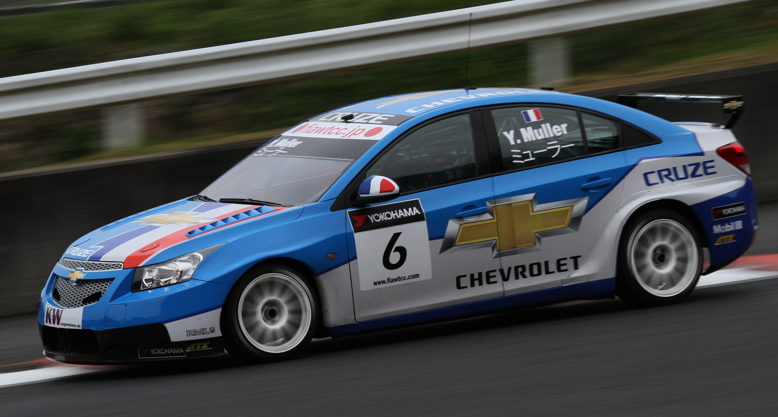 World Touring Car Championship 2010 Race of Japan: Yvan Muller (Chevrolet) during the 1st free practice session on Saturday.